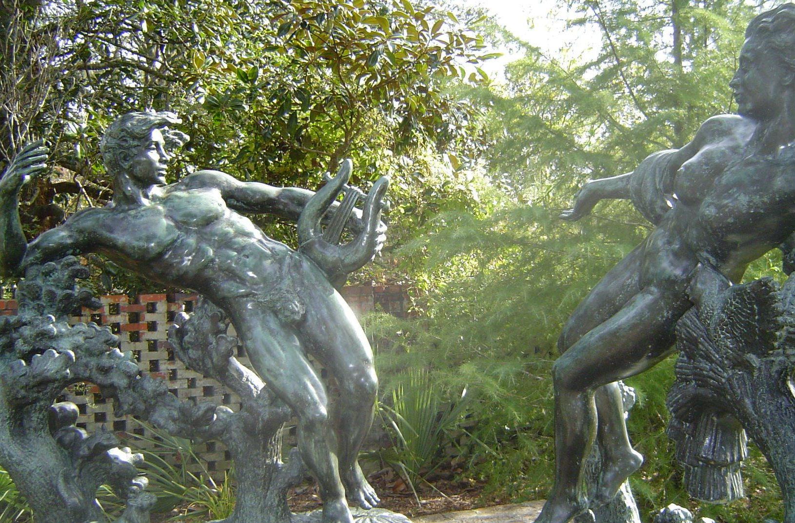 Brookgreen Gardens - sculpture garden: Orpheus and Eurydice by Nathaniel Choate.